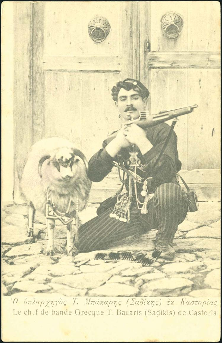 Grigorios Bakaris Sadikis